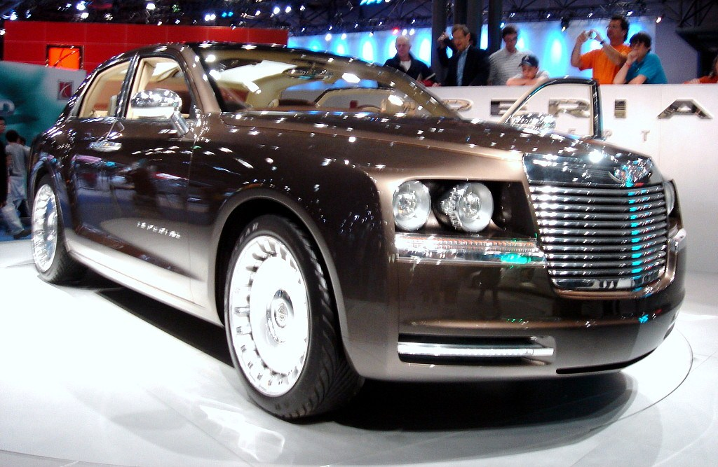 Chrysler Imperial Concept